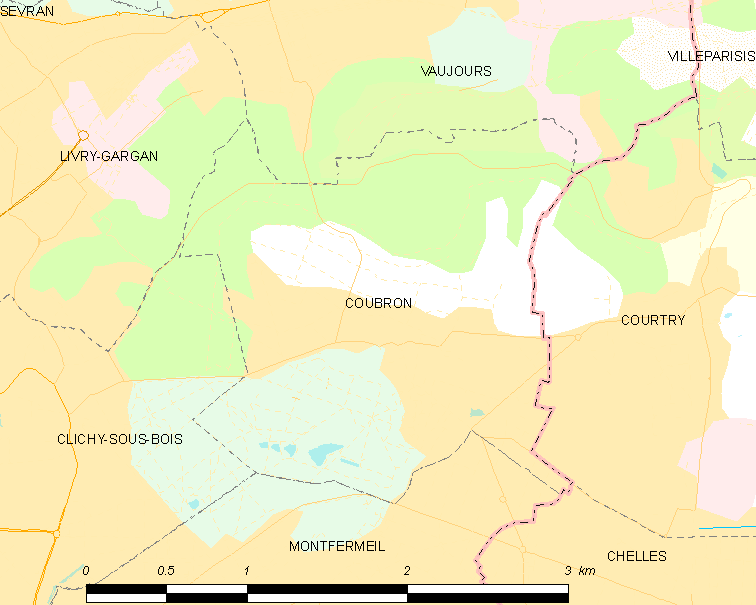 Map of French municipality Coubron